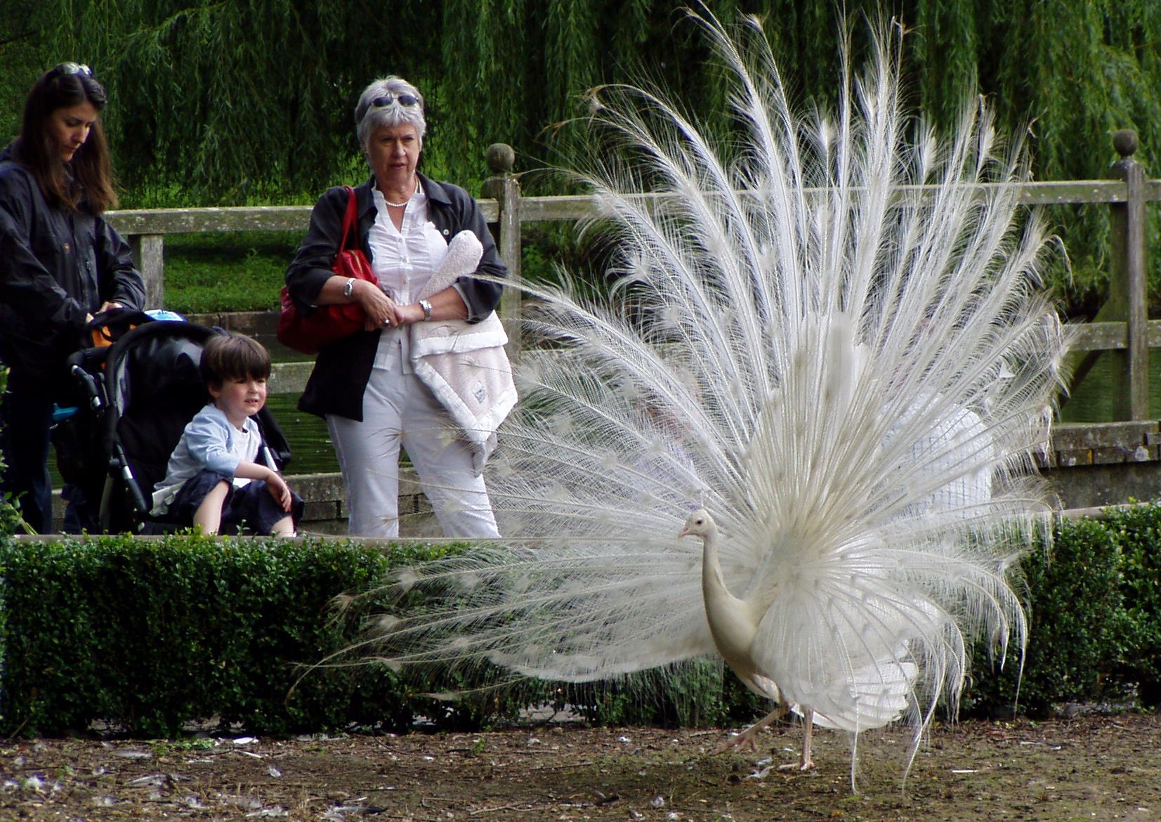 Albino Peacock at Leeds Castle, England